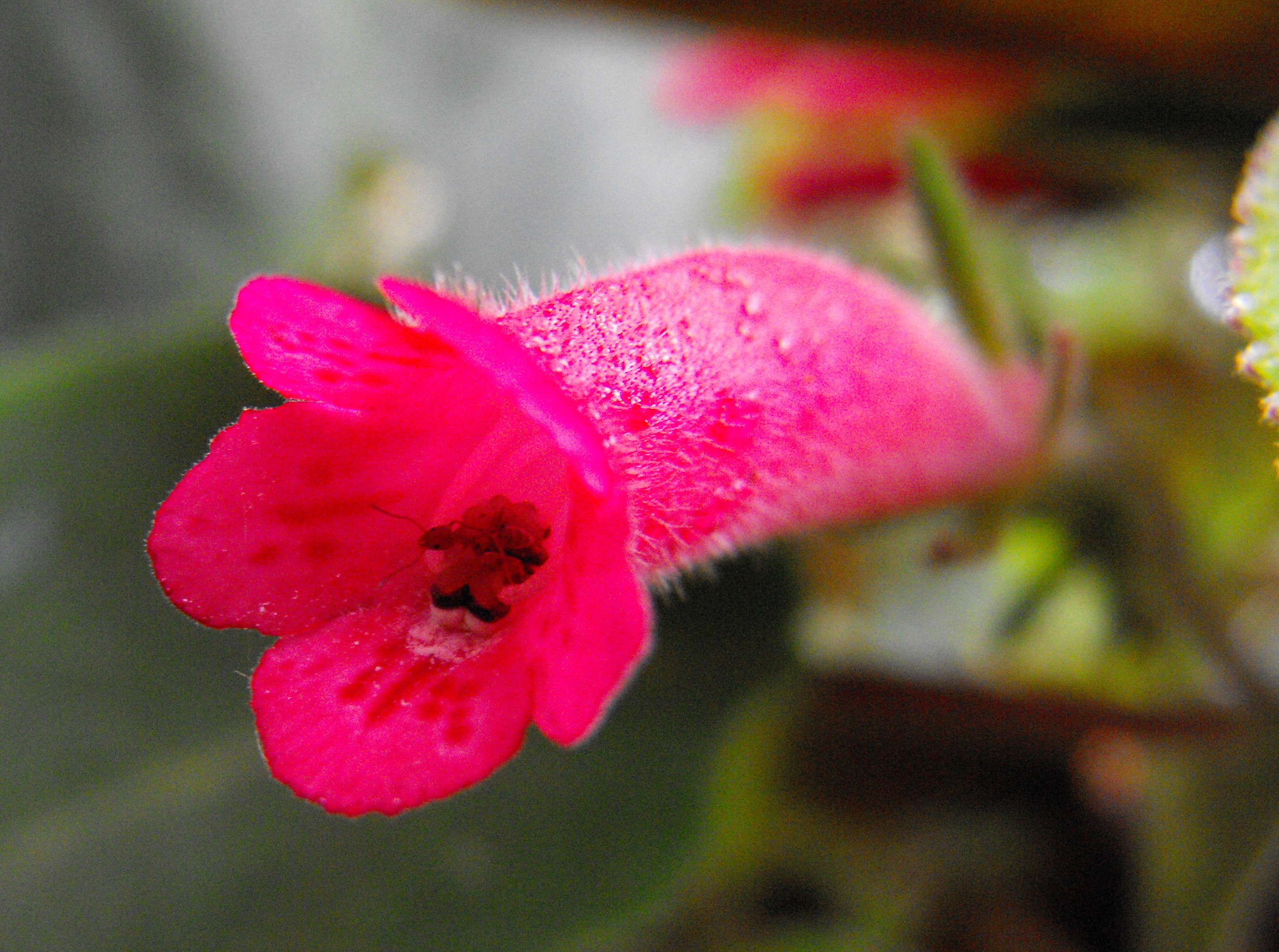 Sinningia cardinalis in the Botanical Building in Balboa Park, San Diego, California, USA. Identified by sign. See the ant inside.